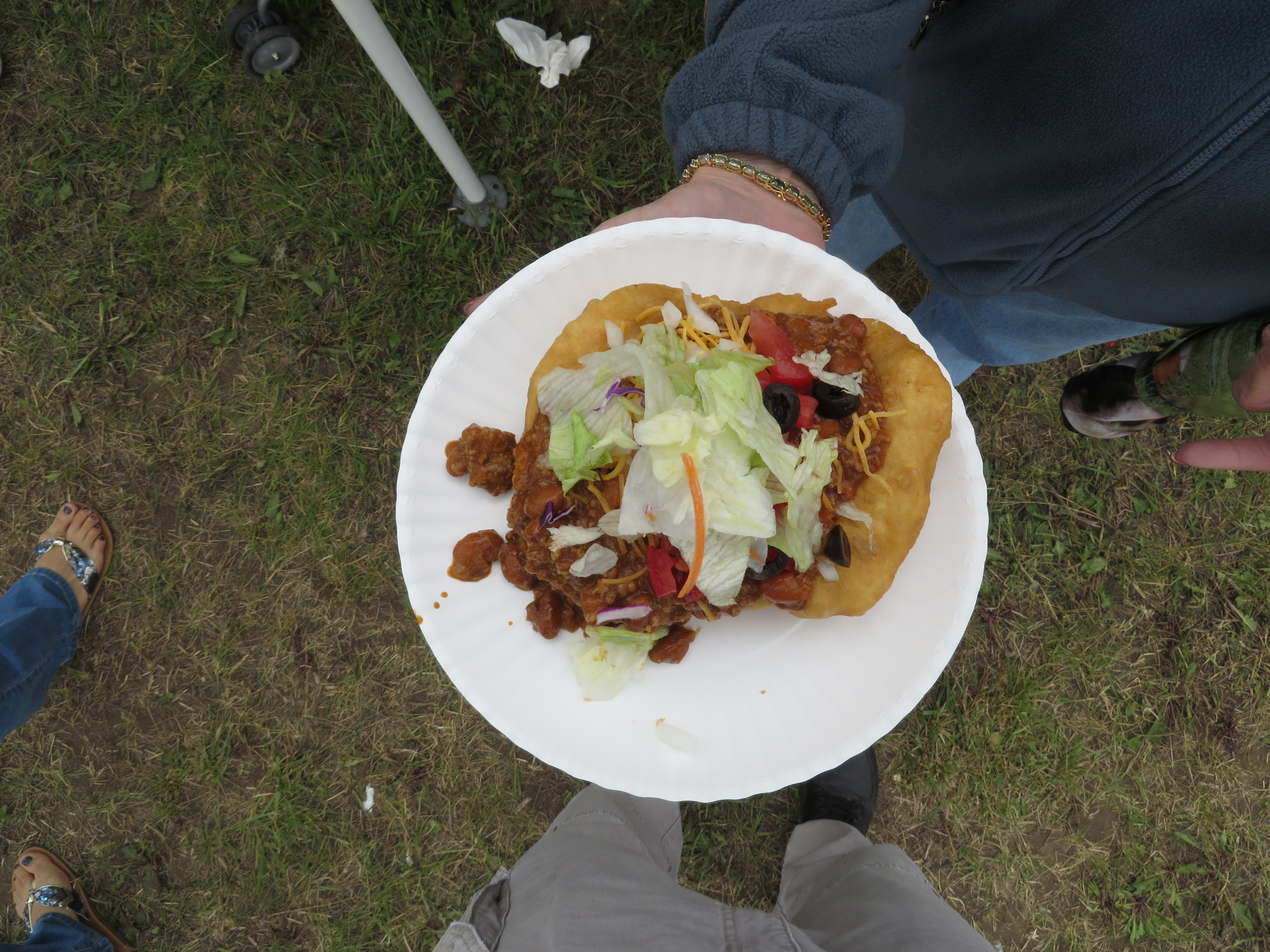 Indian Taco at the Battle of Little Bighorn Reenactment at the banks of the Little Bighorn River between the Crow Agency and Garryowen, Montana.